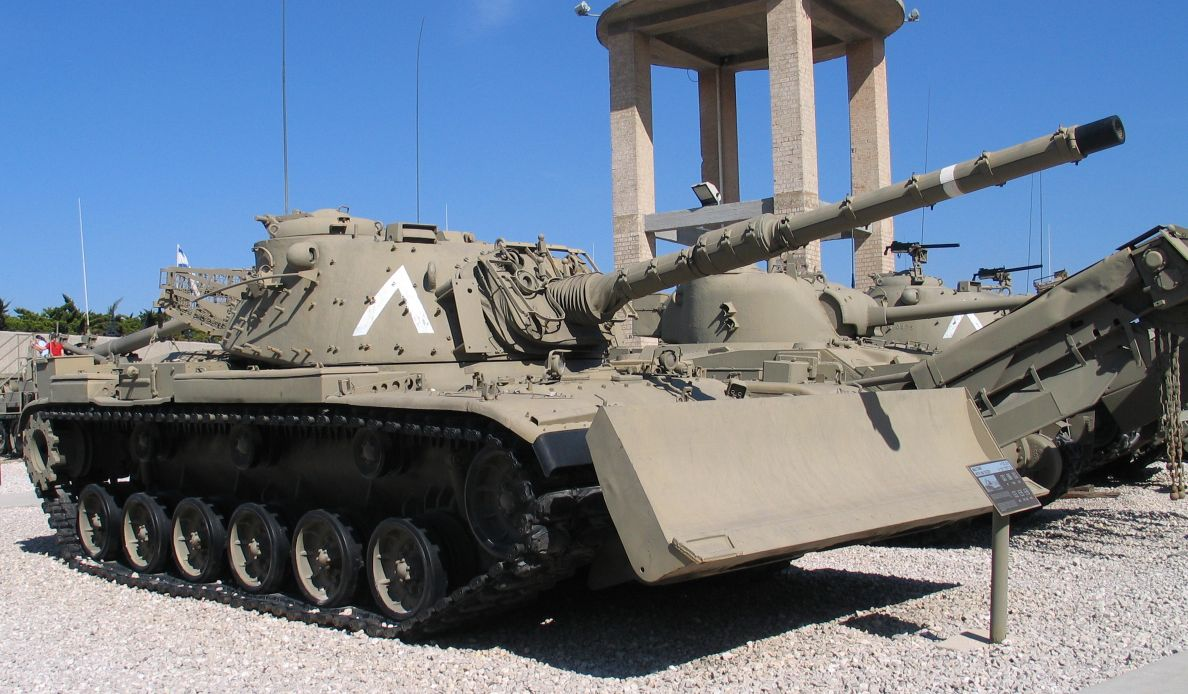 Description: M60 Patton with M9 dozer blade in Yad la-Shiryon Museum, Israel. Source: Photo by me, User:Bukvoed.